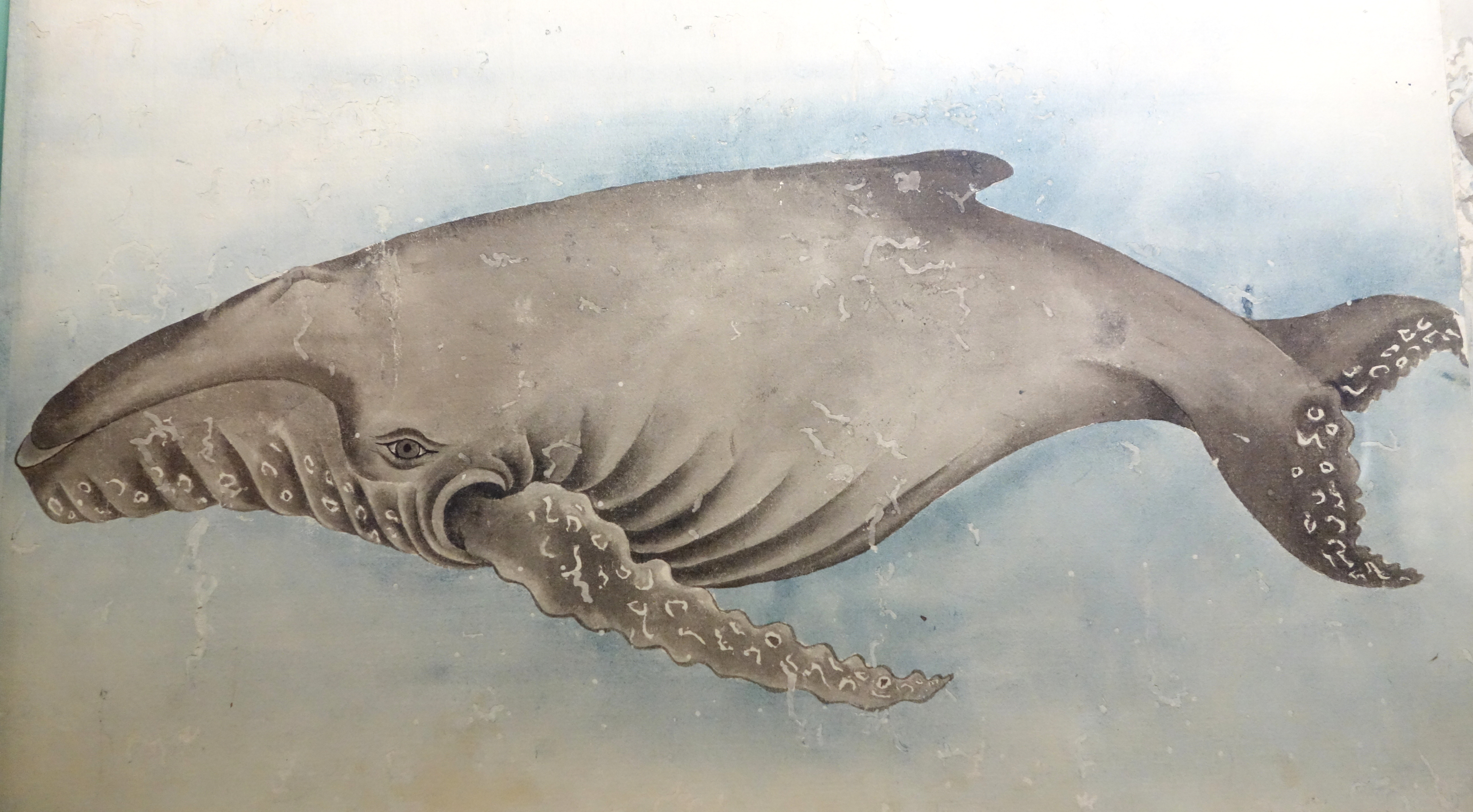 Exhibit in the Tokyo National Museum, Tokyo, Japan. This artwork is old enough so that it is in the public domain.